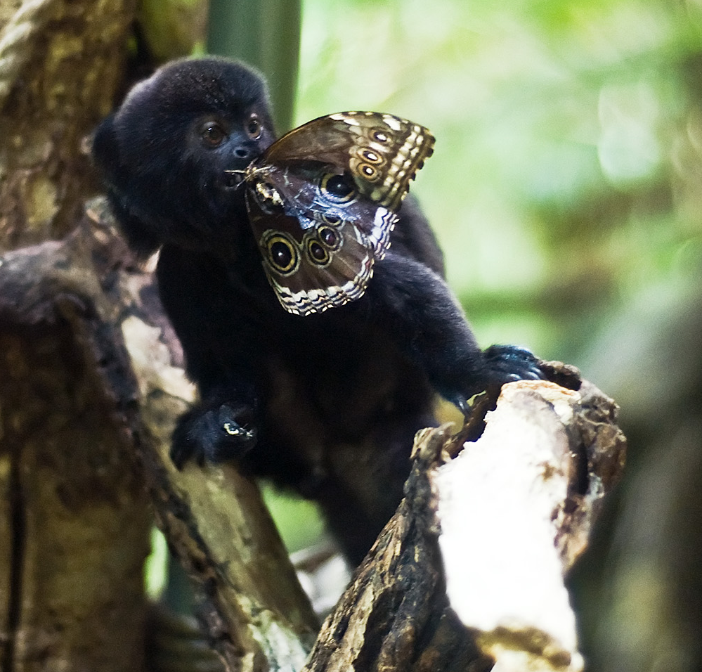 A Goeldi's monkey (Callimico goeldii) eating an unidentified butterfly.